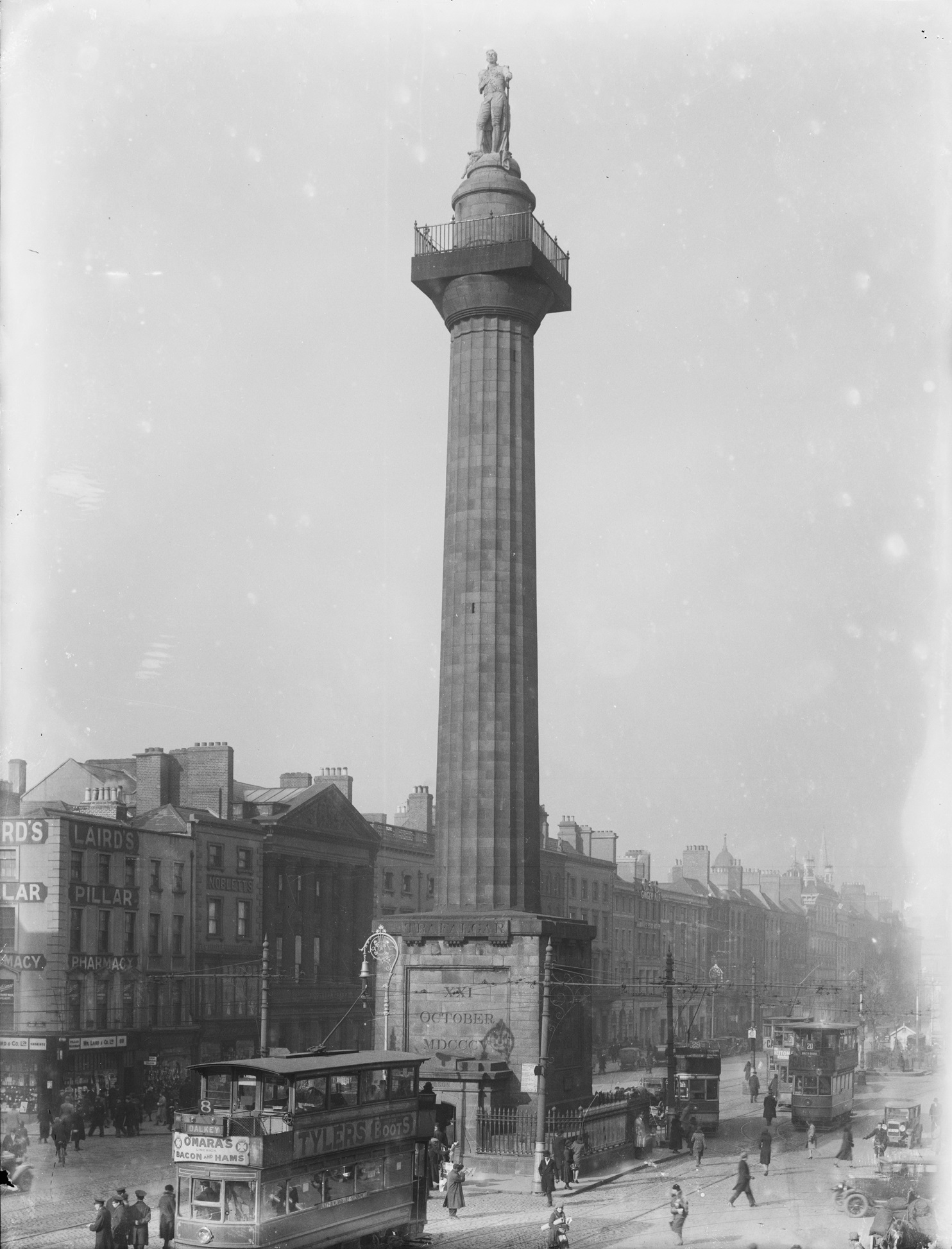 We've seen shots of Nelson's Pillar before, but usually in the distance or in a state of chassis following its blowing up in March 1966, so I was delighted to find this fine view of it in our Eason Collection. This photo also gives us a joyous assortment of trams - the no. 8 to Dalkey; the no. 29 to Fairview; the no. 20 to Rialto Bridge; and I think the no. 3 to Westland Row and Ringsend; and a car with reg. no. IK 9729. There's also an infuriatingly obscured news poster which seems to be screaming about "Startling Evidence"! Date: Circa 1927? NLI Ref.: EAS_1758